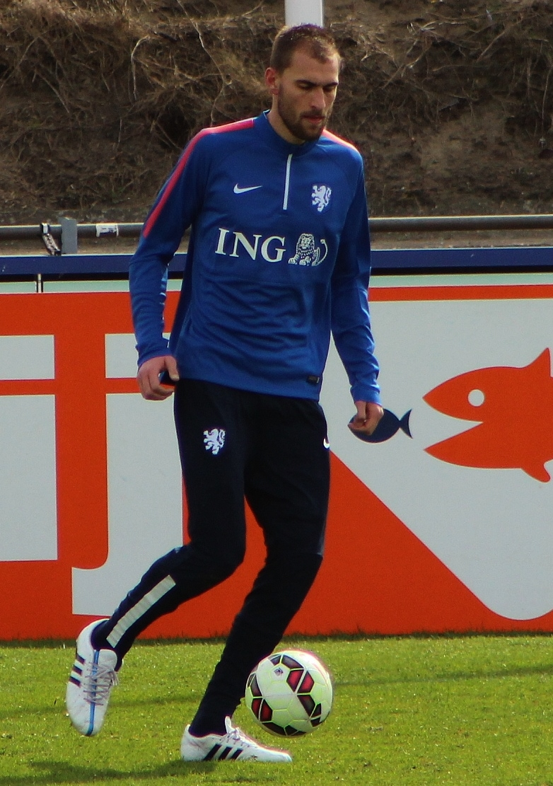 Bas Dost training with the Netherlands national team on 30 March 2015.